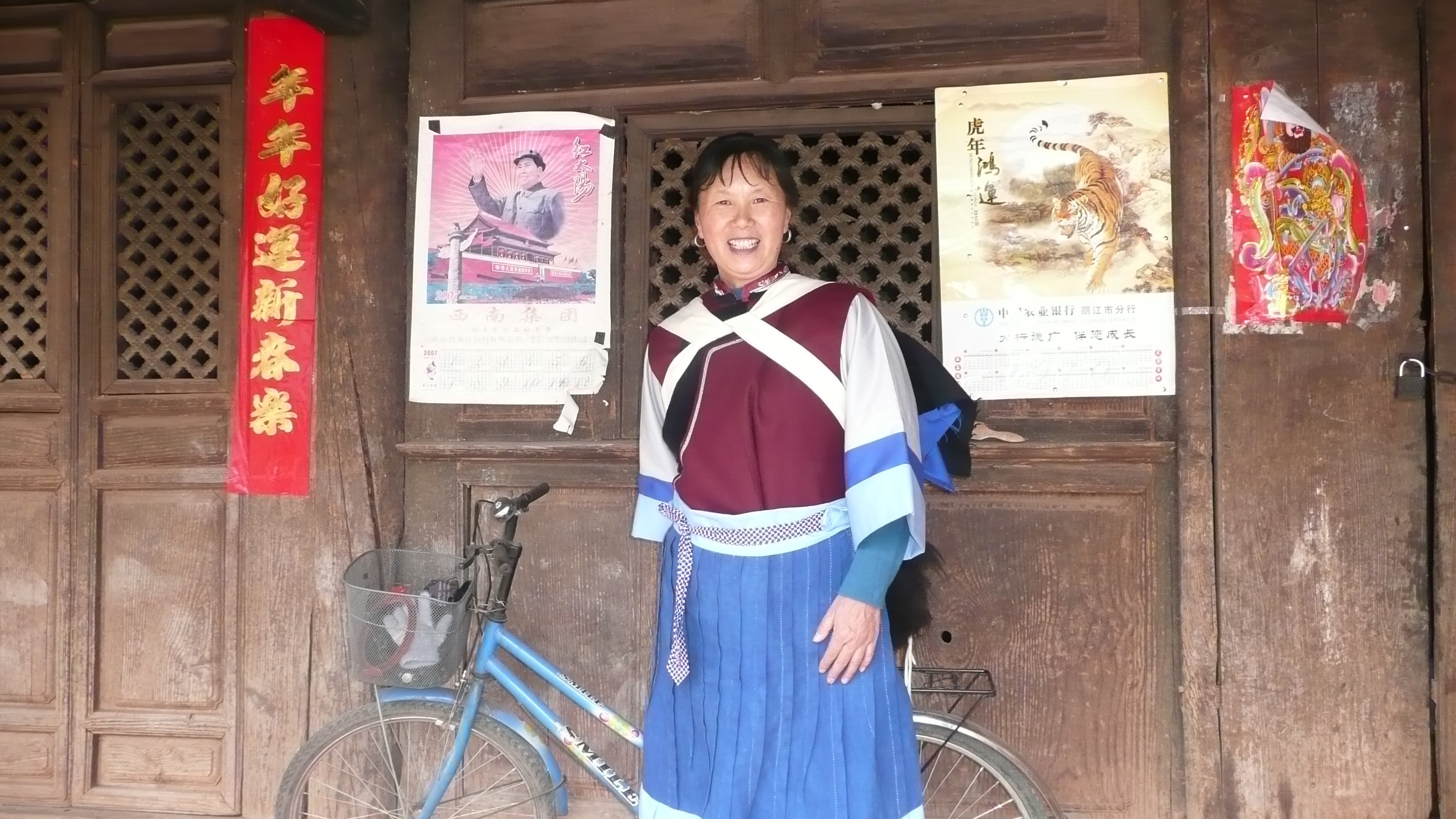 Naxi minority in Lijiang (Yunnan)